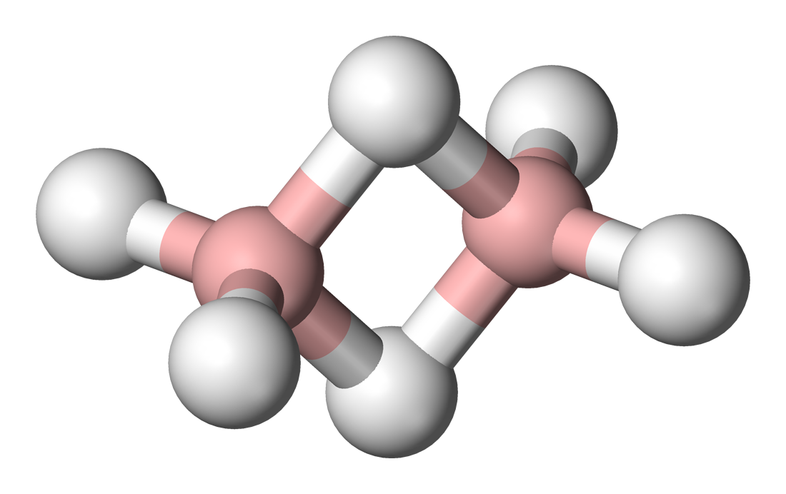 Ball-and-stick model of the diborane molecule, B2H6